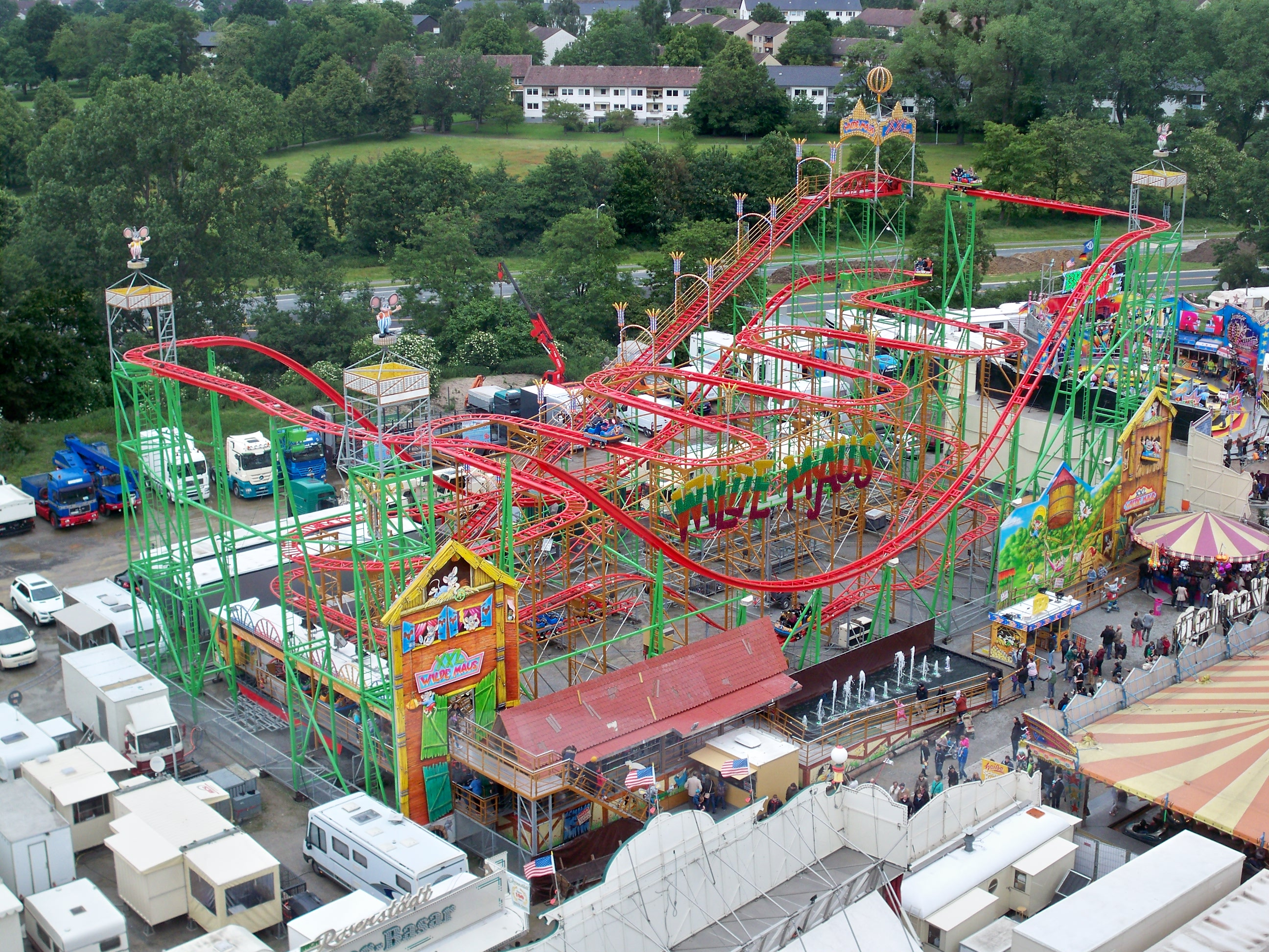 Wilde Maus XXL, roller coaster, in Wolfsburg, Lower Saxony